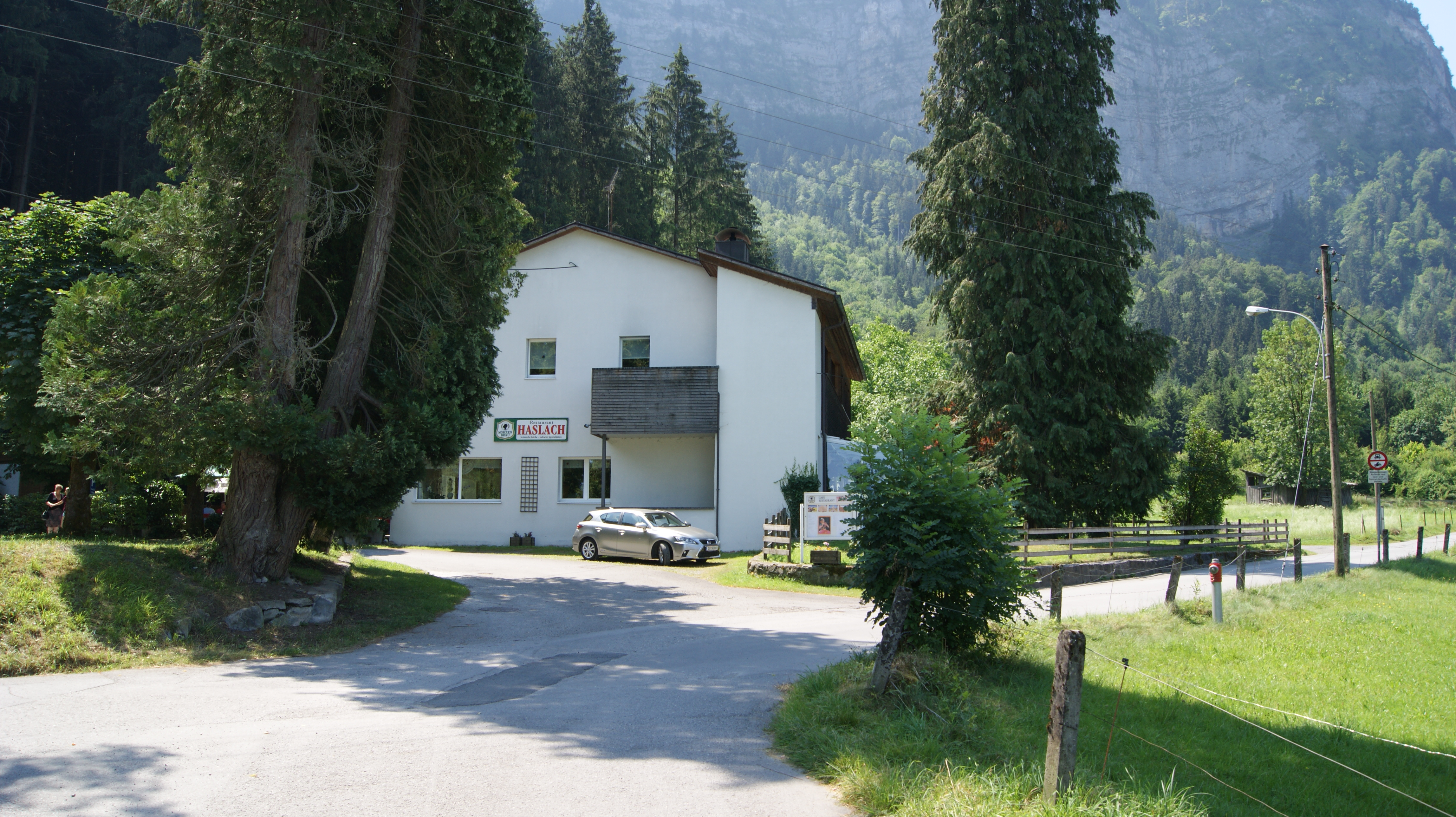 Inn Haslach.